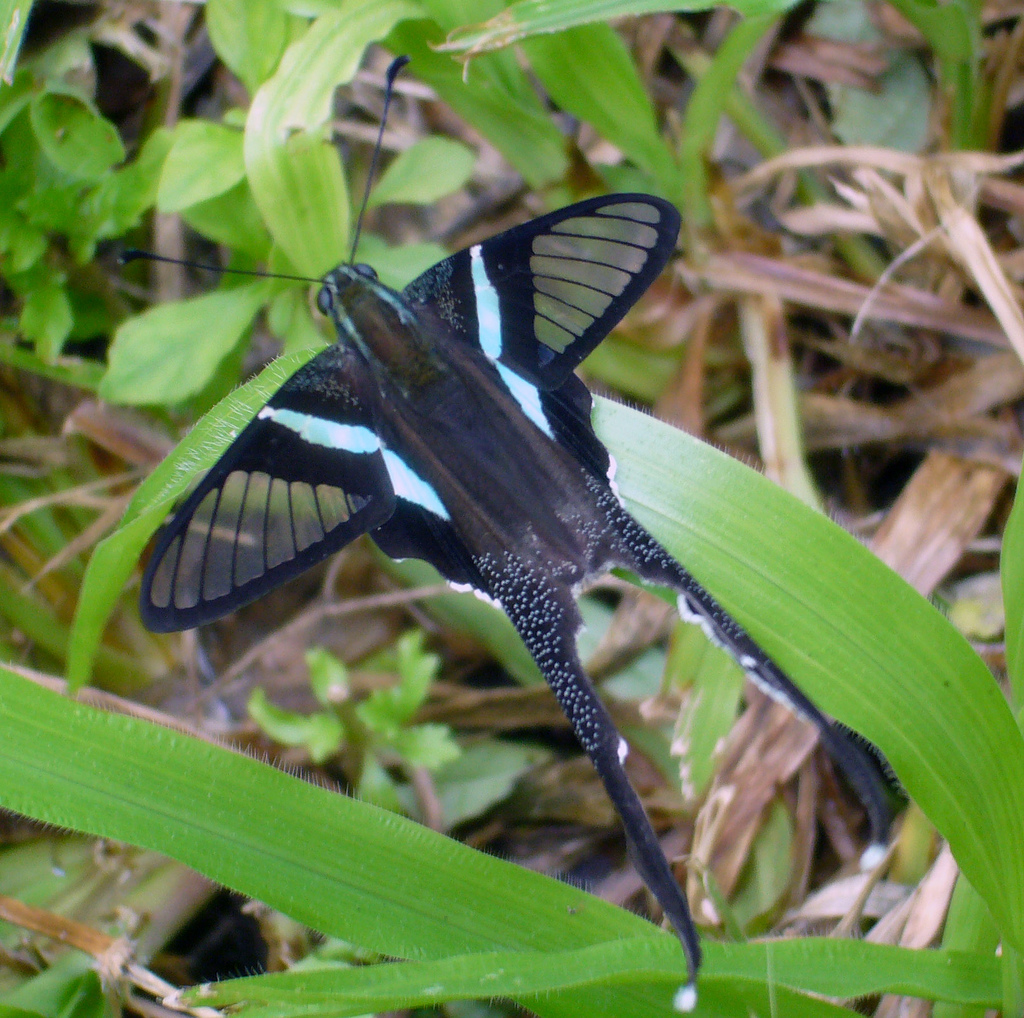 Sabah disappointed, very few butterflies.